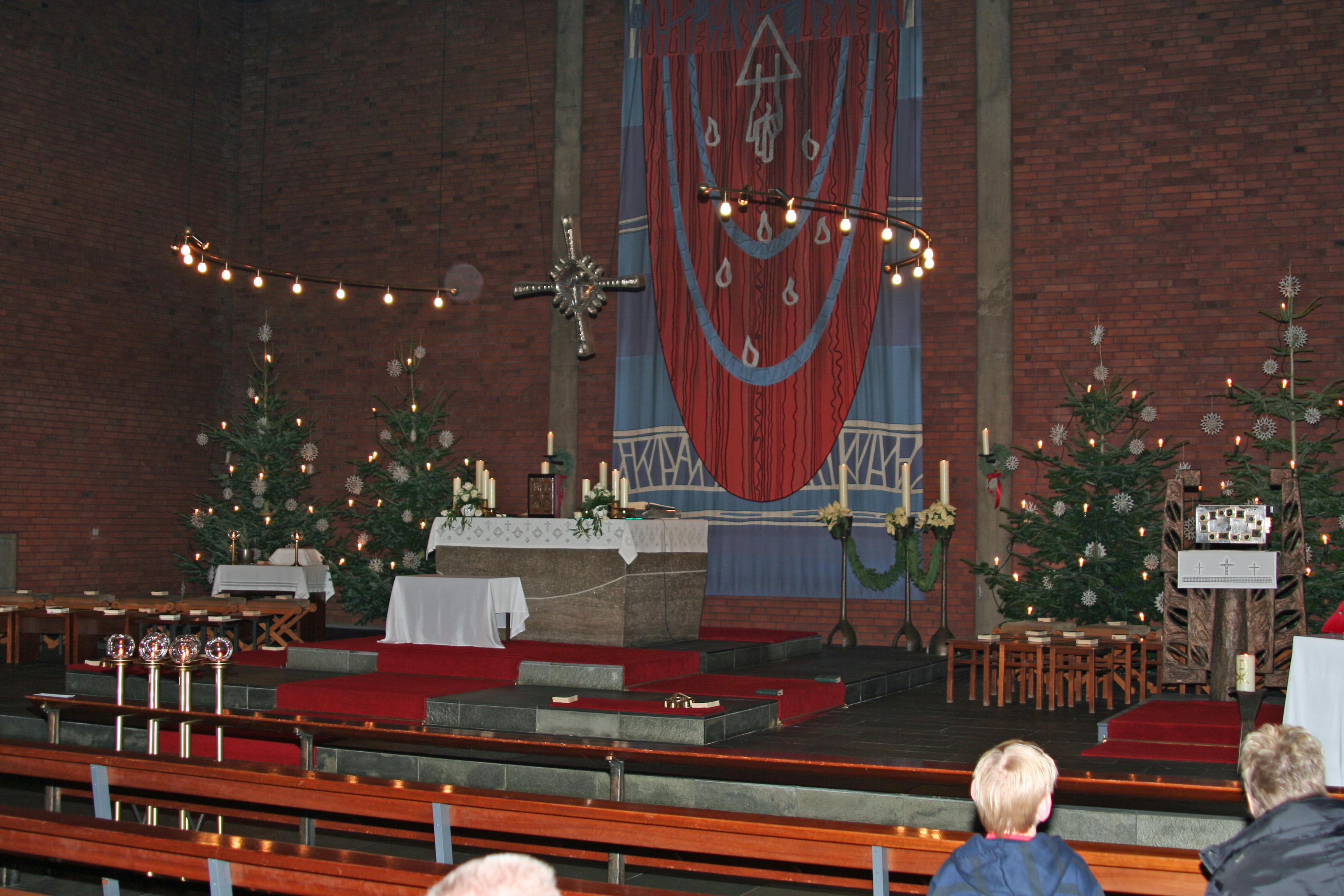 Interior of the St. Pius Church in Oberhausen (Germany)